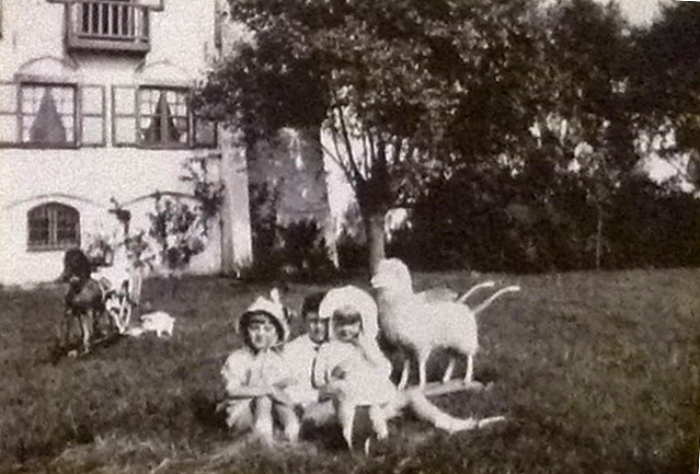 Fritz de Brouckère (1879-1928), a Belgian painter and his family before his home "Het Bremhuis" in Knokke, Belgium